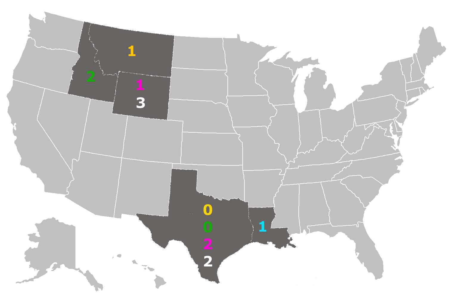 Disease incidence map of Brucella abortus infections in cattle in USA during 2004 – 2008. white – year 2004 pink – year 2005 green – year 2006 yellow – year 2007 blue – year 2008